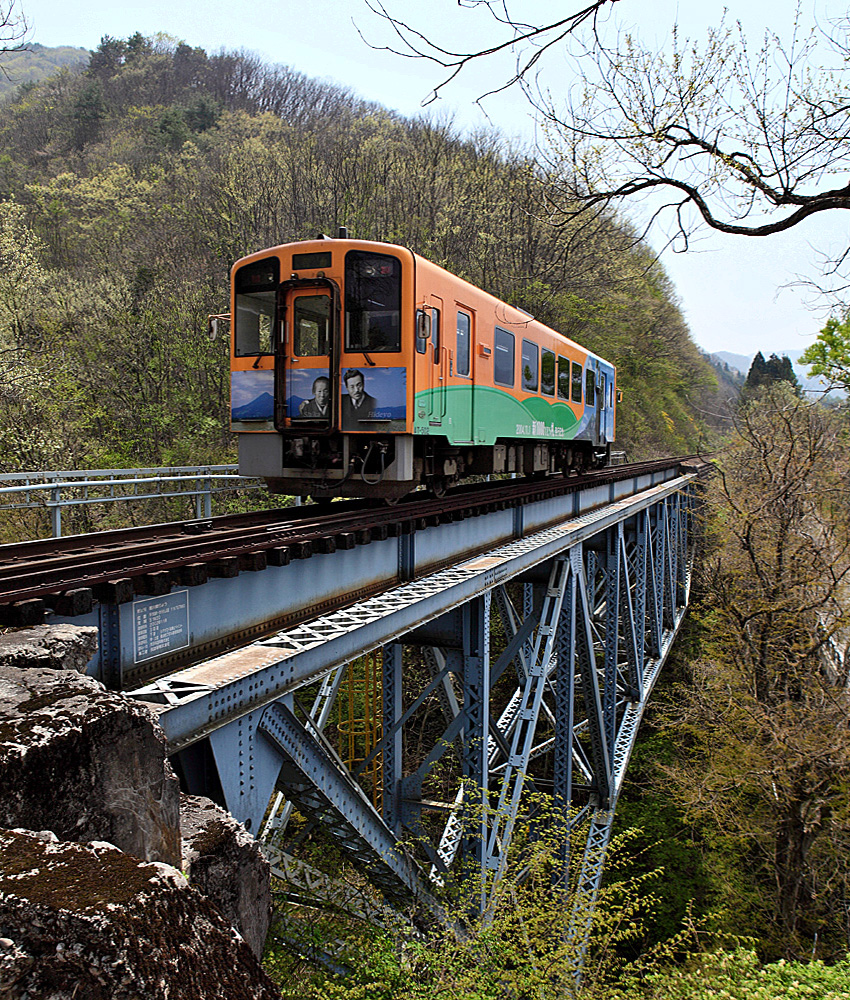 Aizu Railway Type AT-500 (AT-502) DMU and Kurakawa Bridge